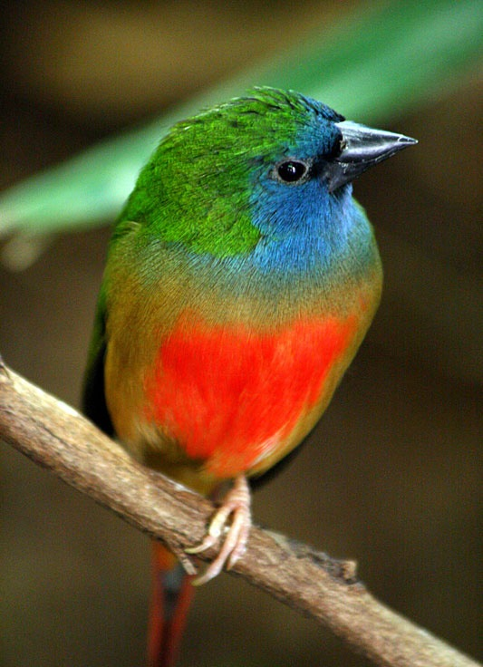 Pin-tailed Parrotfinch (Erythrura prasina). San Diego Zoo, CA.